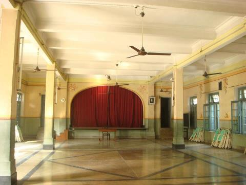 The Auditorium